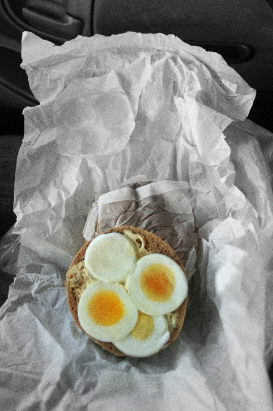 Packed lunch in a paper: Sandwich with slices of boiled egg.